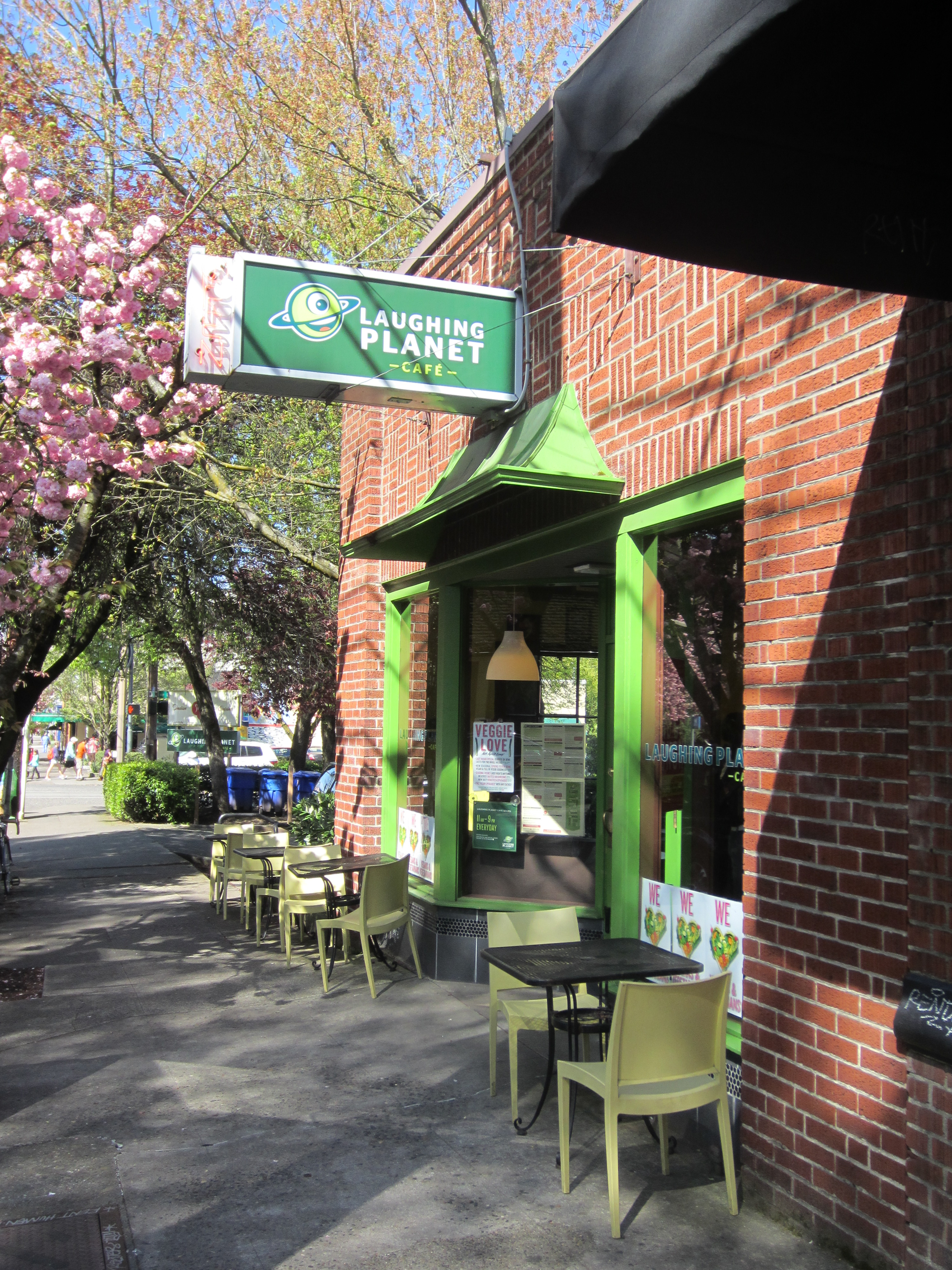 Laughing Planet in NW Portland, Oregon (2014)